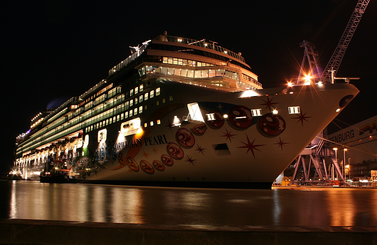 Author: Pink Dispatcher; Source: Flickr URL